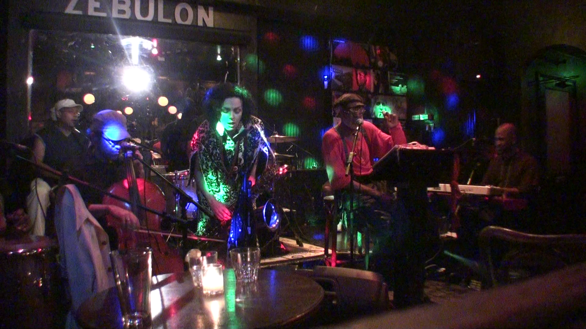 Melvin Van Peebles with Laxative at the Zebulon